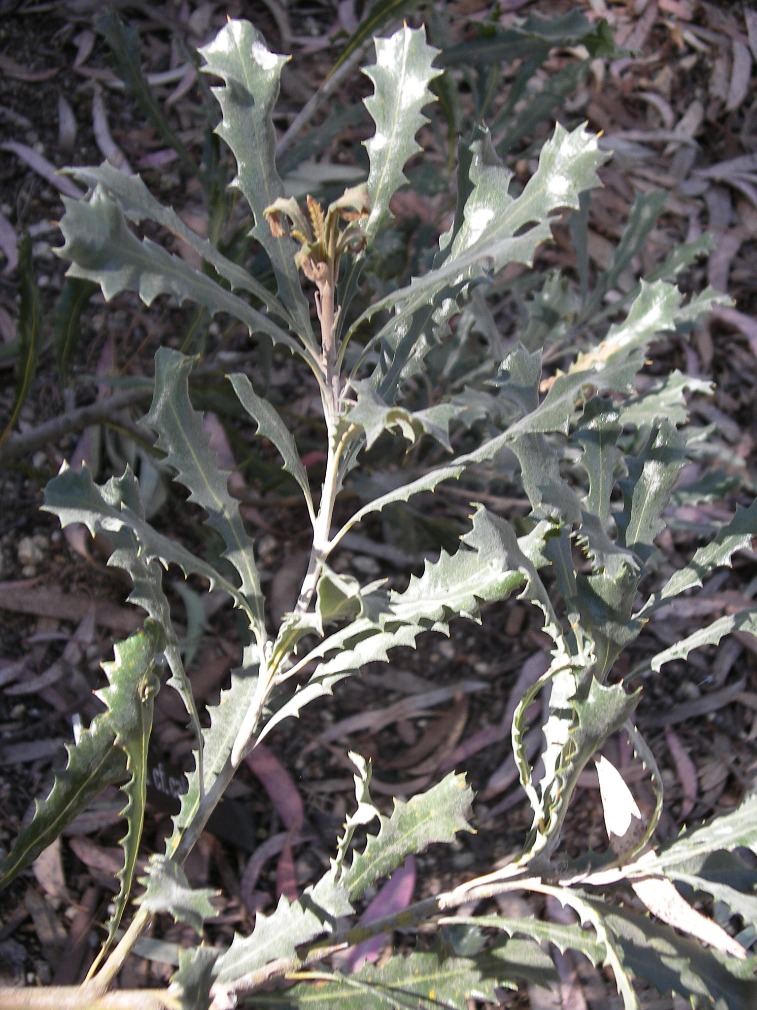 Banksia caleyi foliage.